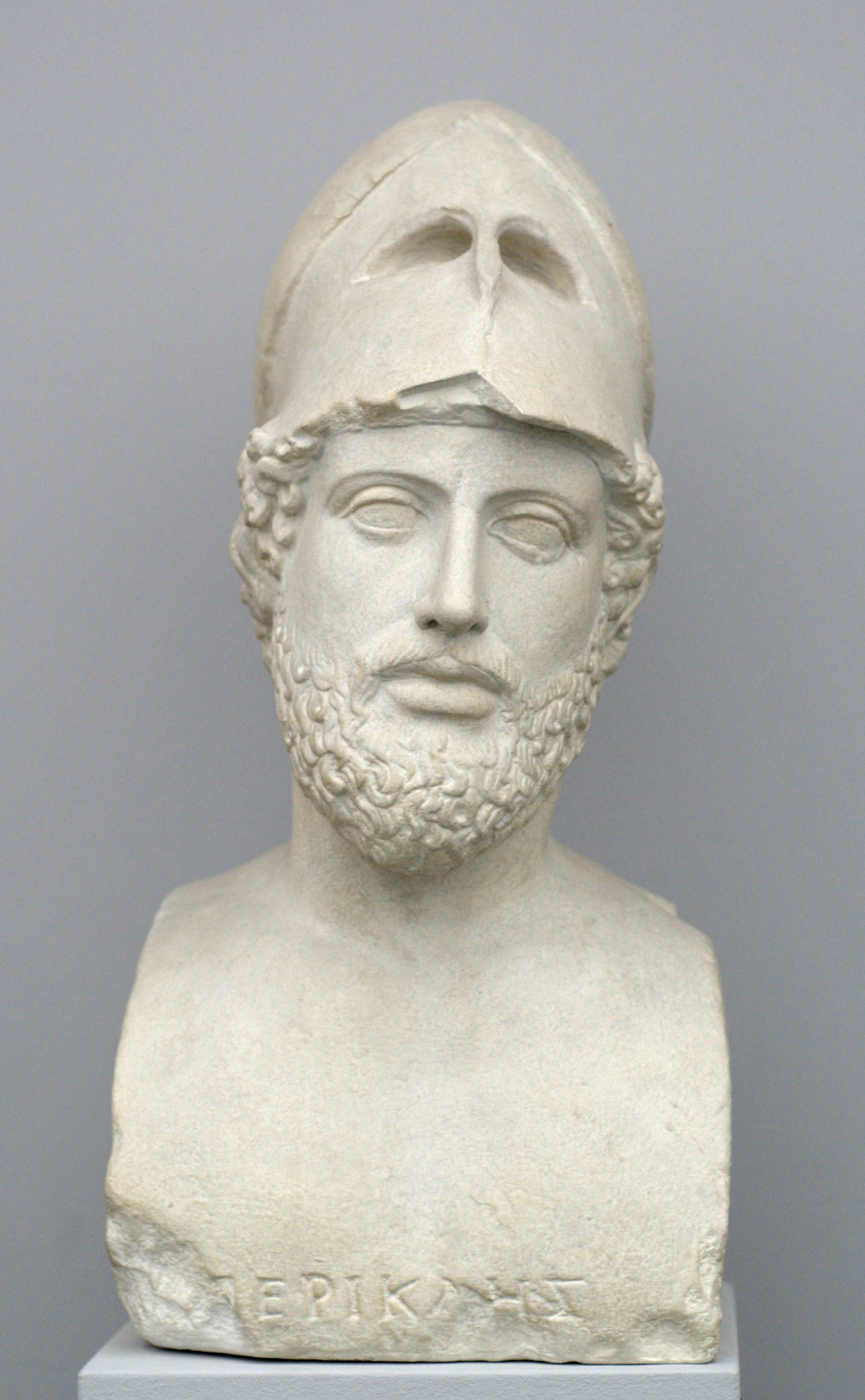 Bust of Pericles. Modern copy after an original in the British Museum (see below).